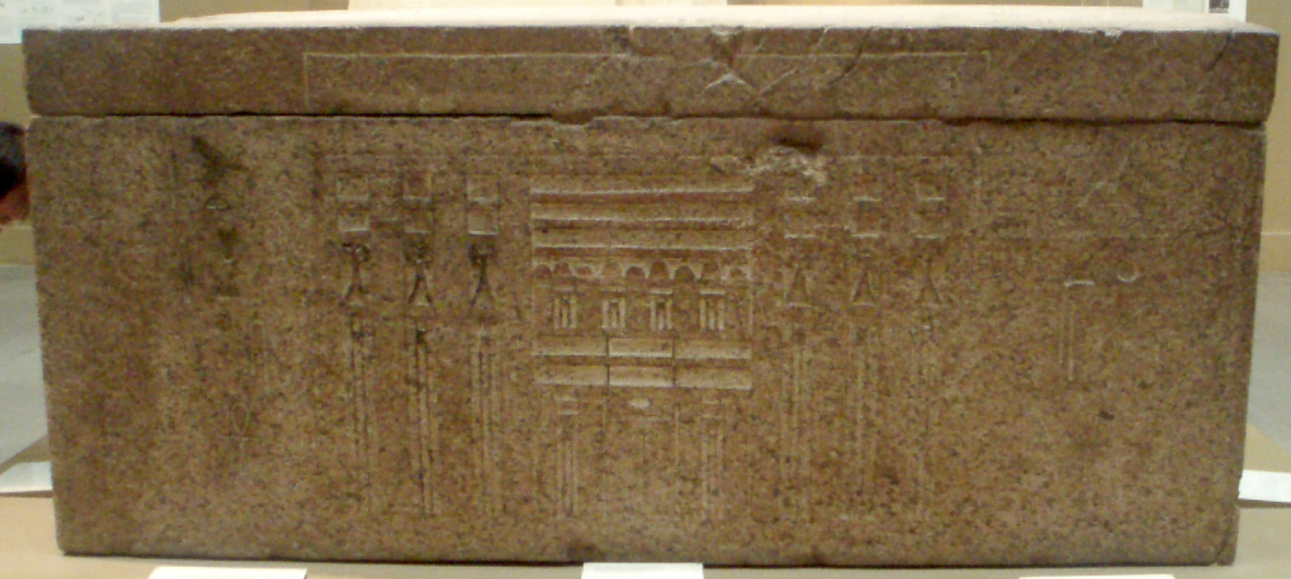 Sarcophagus of Meresankh II, a daughter of the pharaoh Khufu, from Giza, tomb G 7410B. Made of red granite, from the 4th dynasty, circa 2606-2550 B.C. Now residing in the Museum of Fine Arts, Boston. Meresankh II was buried in a royal mastaba field east of the Great pyramid and is to be distinguished from Meresankh III, her niece.